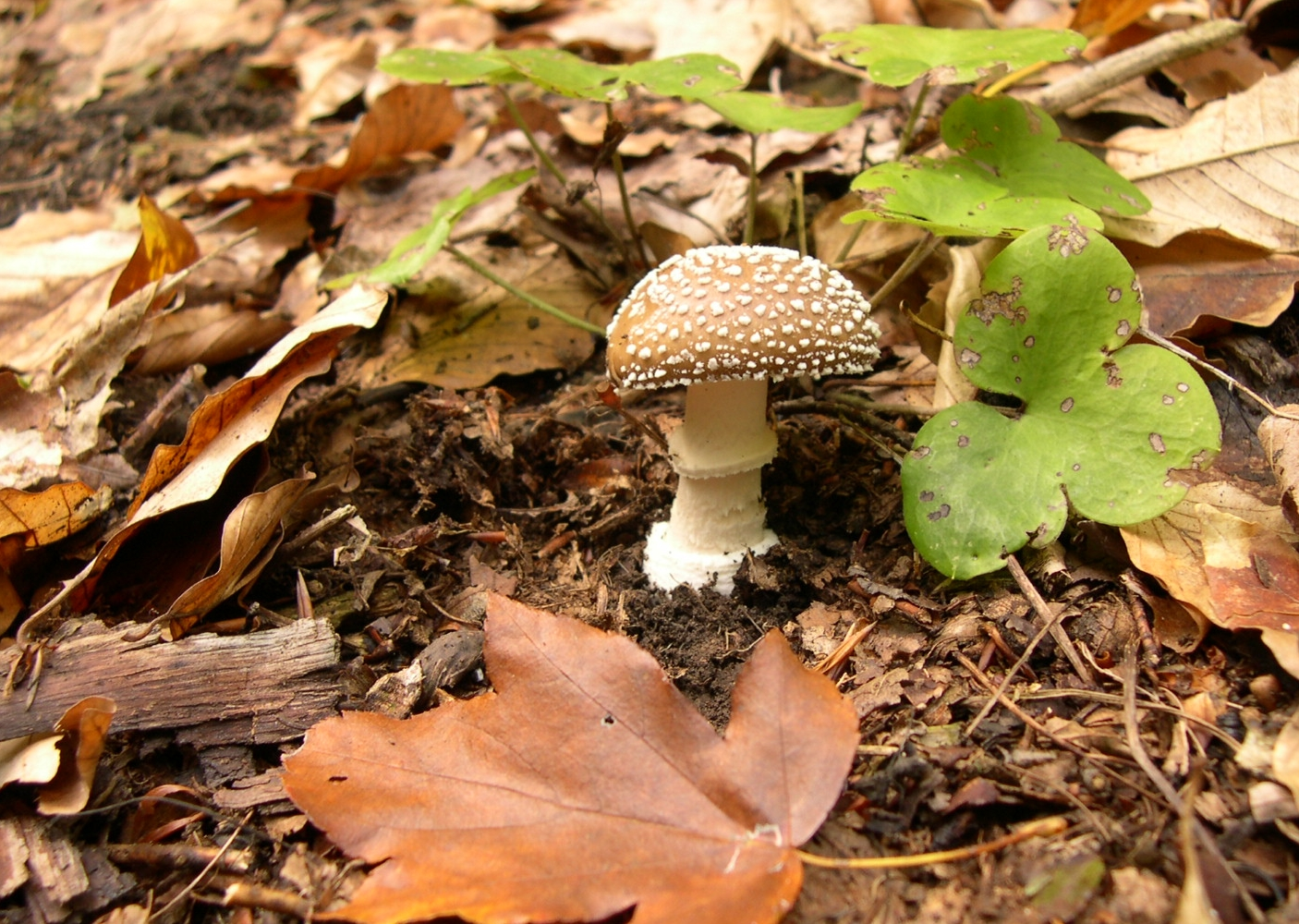 Amanita pantherina (DC.:Fr.) Krombh.